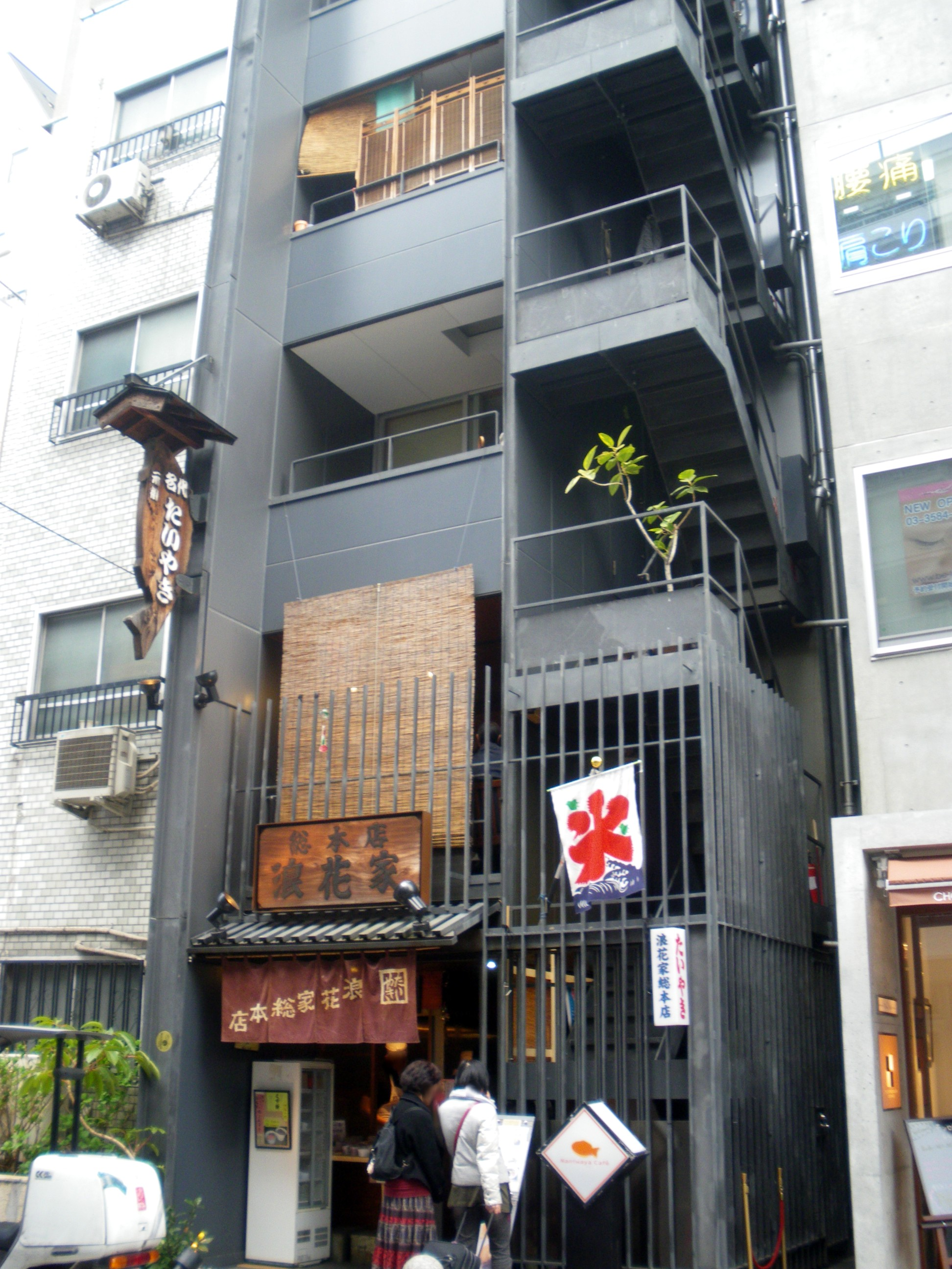 Naniwaya Sohonten(a taiyaki shop in Tokyo)(Azabujuban,Minato,Tokyo)